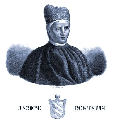 Jacopo Contarini, 47th Doge of Venice